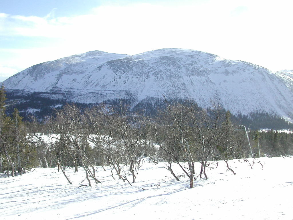 A fell in western Jämtland during winter.